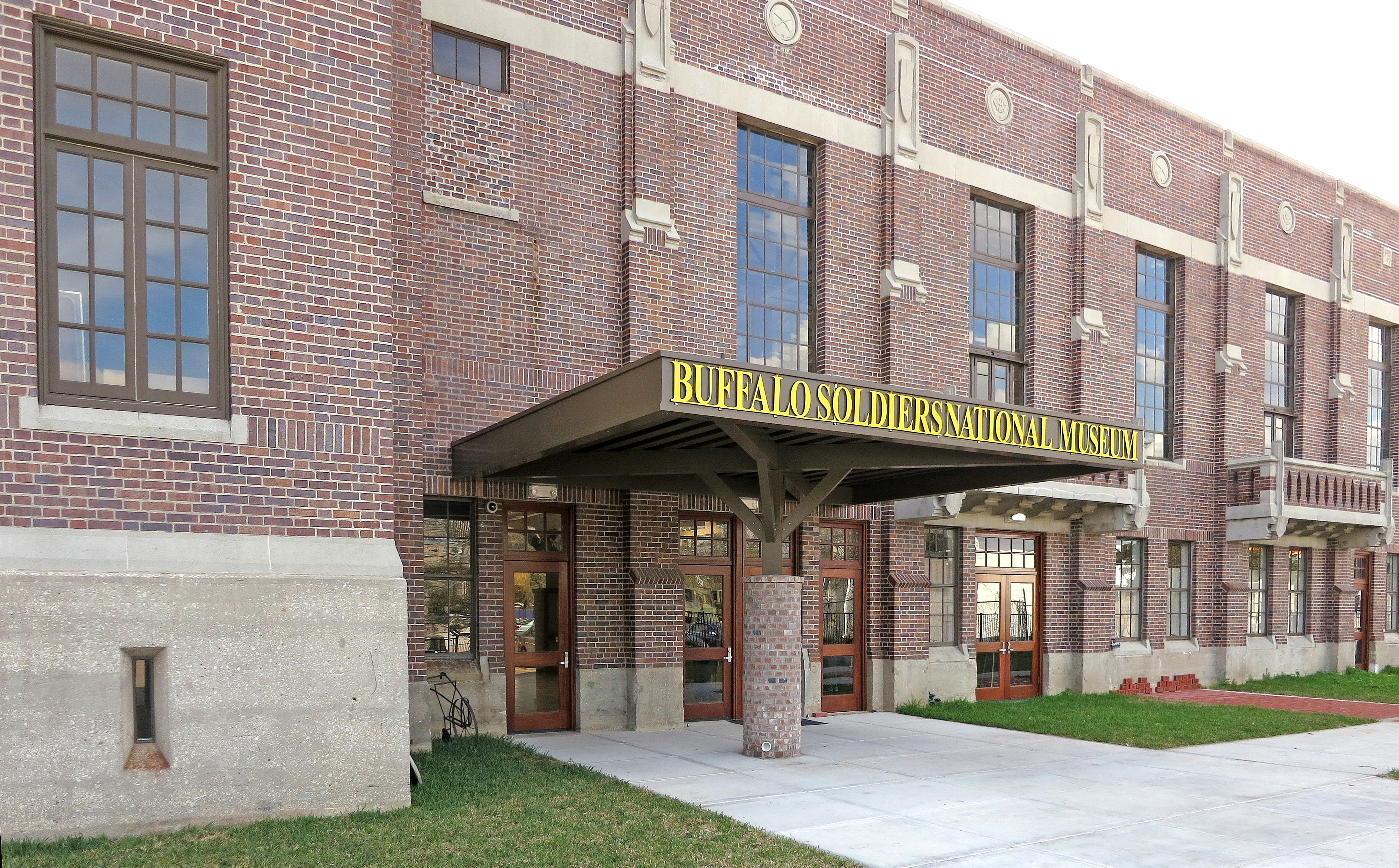 Originally The Houston Light Guard Armory -- Now the Buffalo Soldiers National Museum